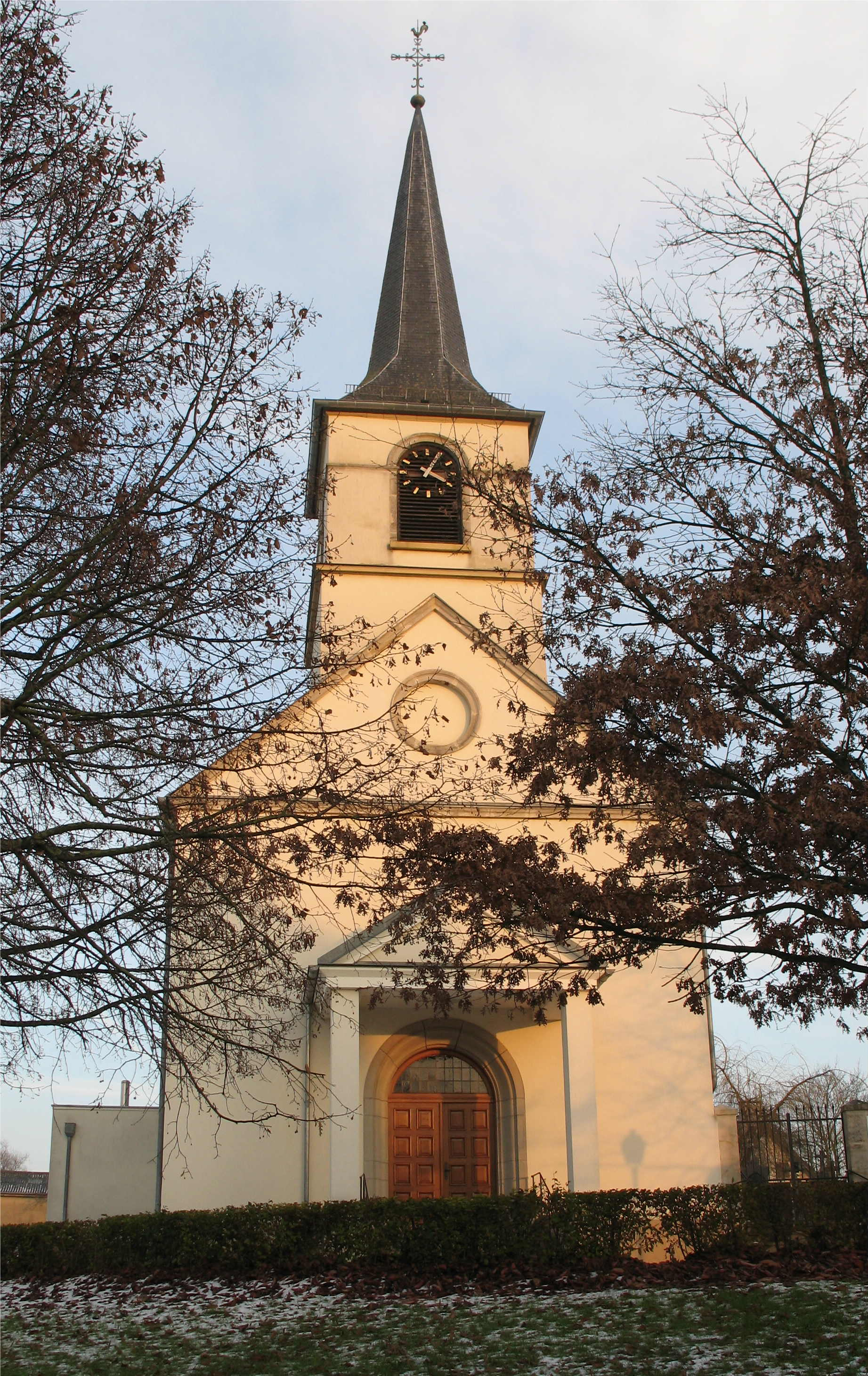 Church of Contern, Luxembourg.